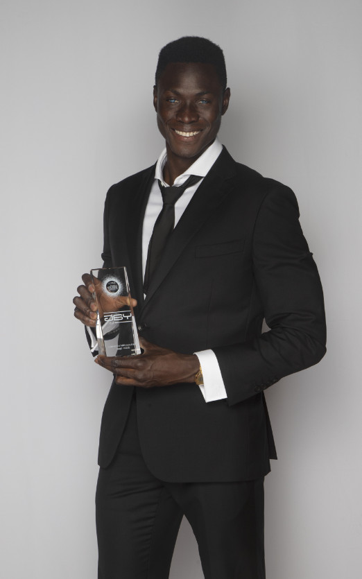 Sada Keita receiving award